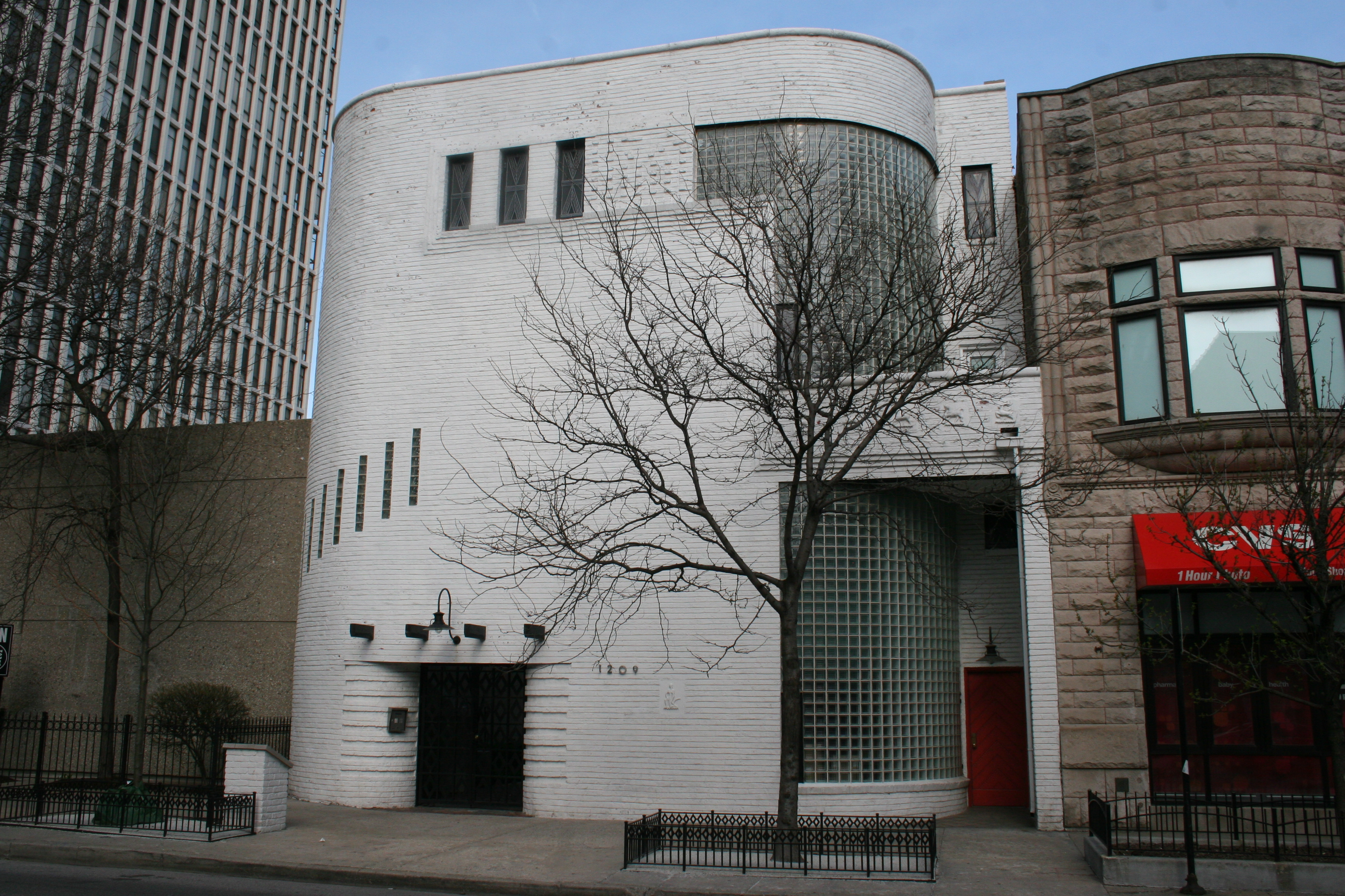 Fisher Studio Houses in Gold Coast, Chicago, IL